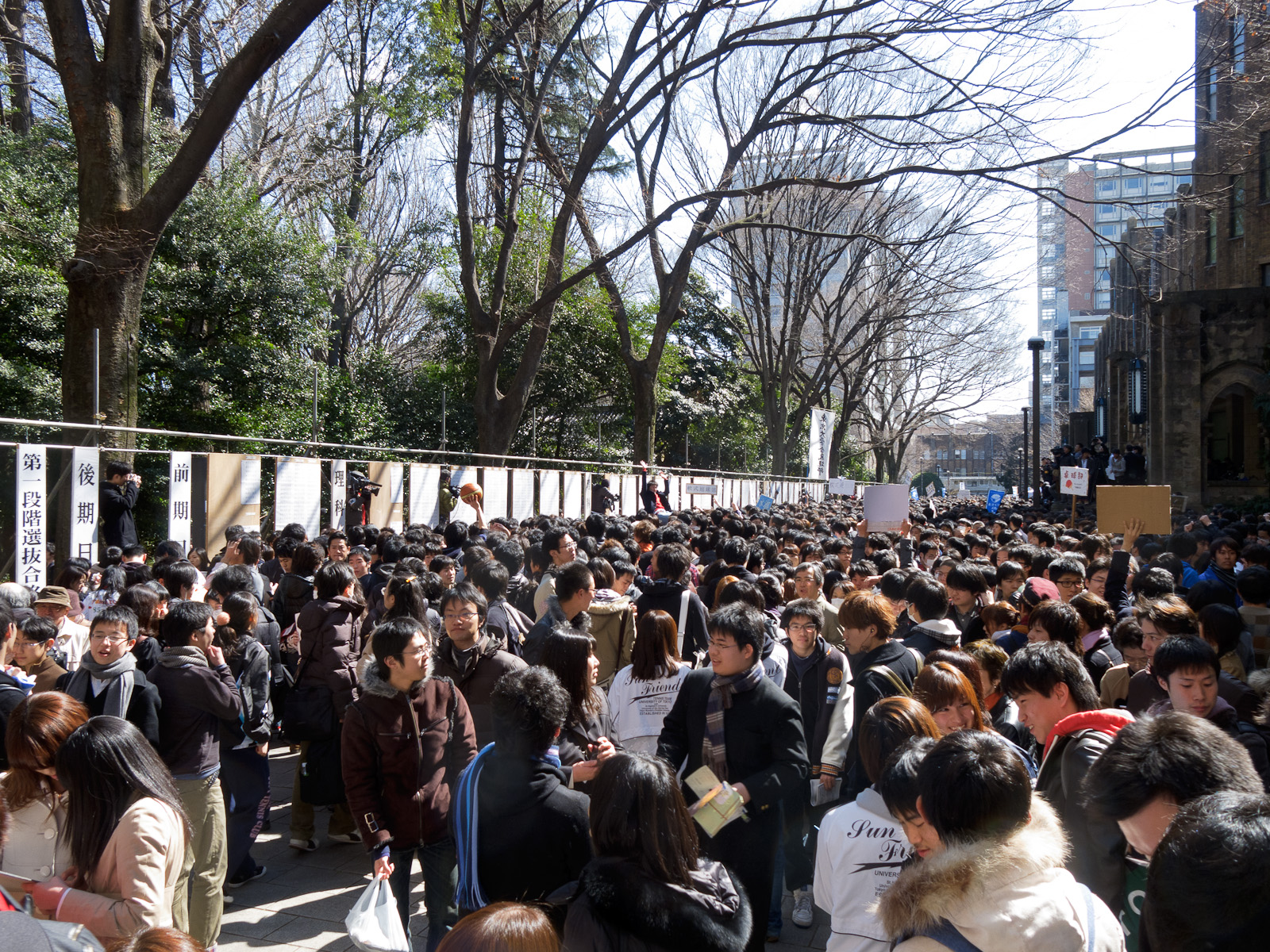 A crowd has gathered to take part of the announcement of the results from several entrances exams for admittance to the University of Tokyo. Some rejoice and cheer, newly accepted students can occasionally be seen hurled into the air. Overlooking the events is national Japanese media and members of student organisations can be seen amongst the crowd.